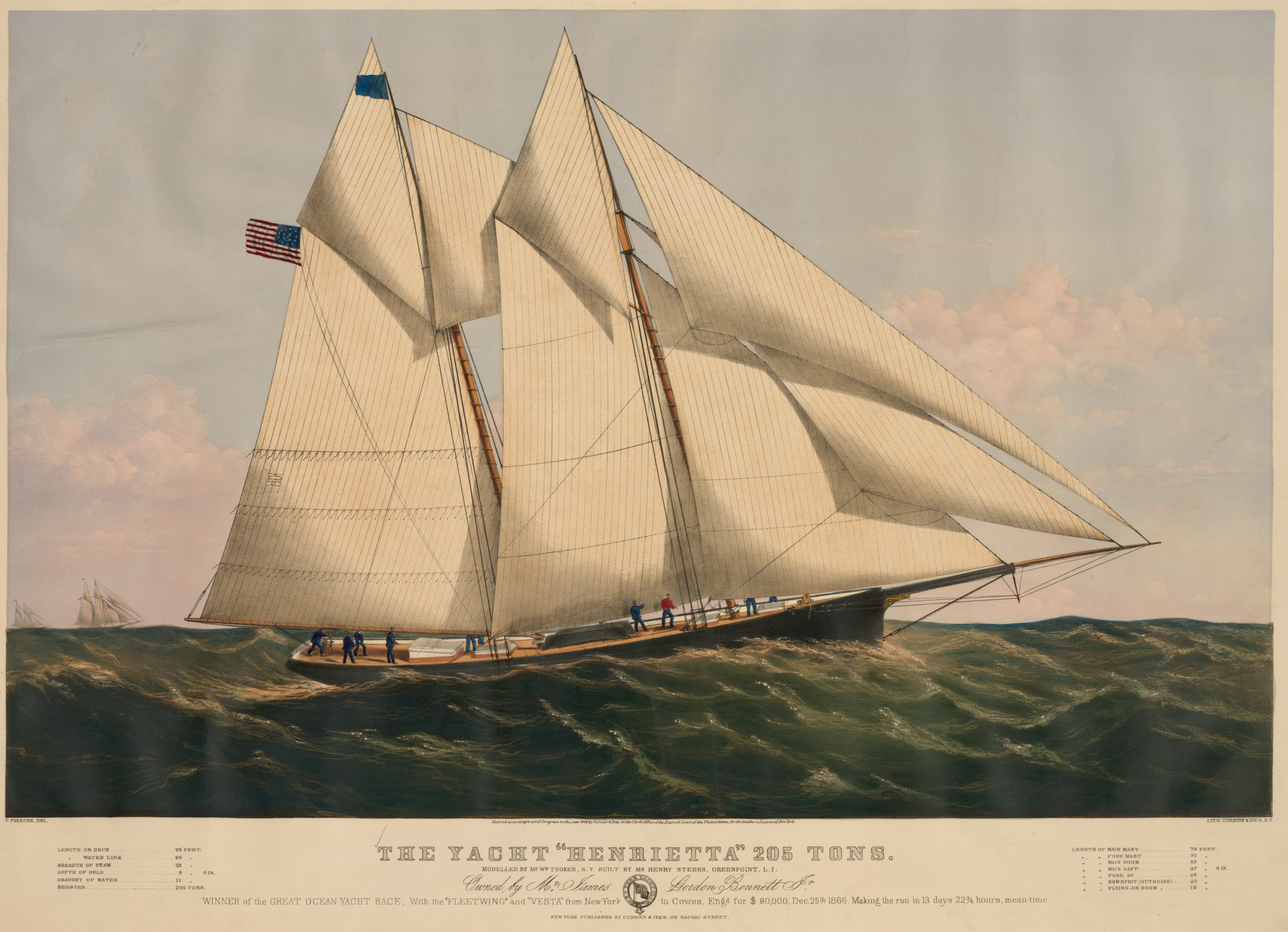 James Gordon Bennett, Jr.'s 205-ton schooner Henrietta, built at the Henry Steers shipyard in 1861, and winner of the New York Yacht Club's Great Ocean Race in 1866.